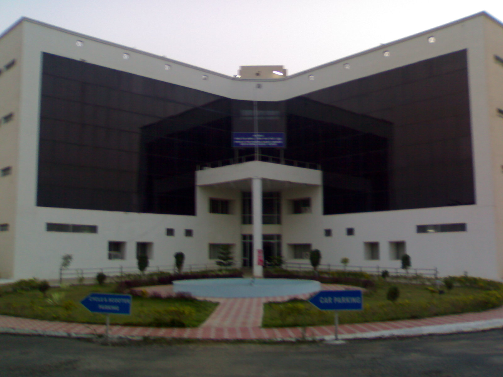 Own work and released for public use.